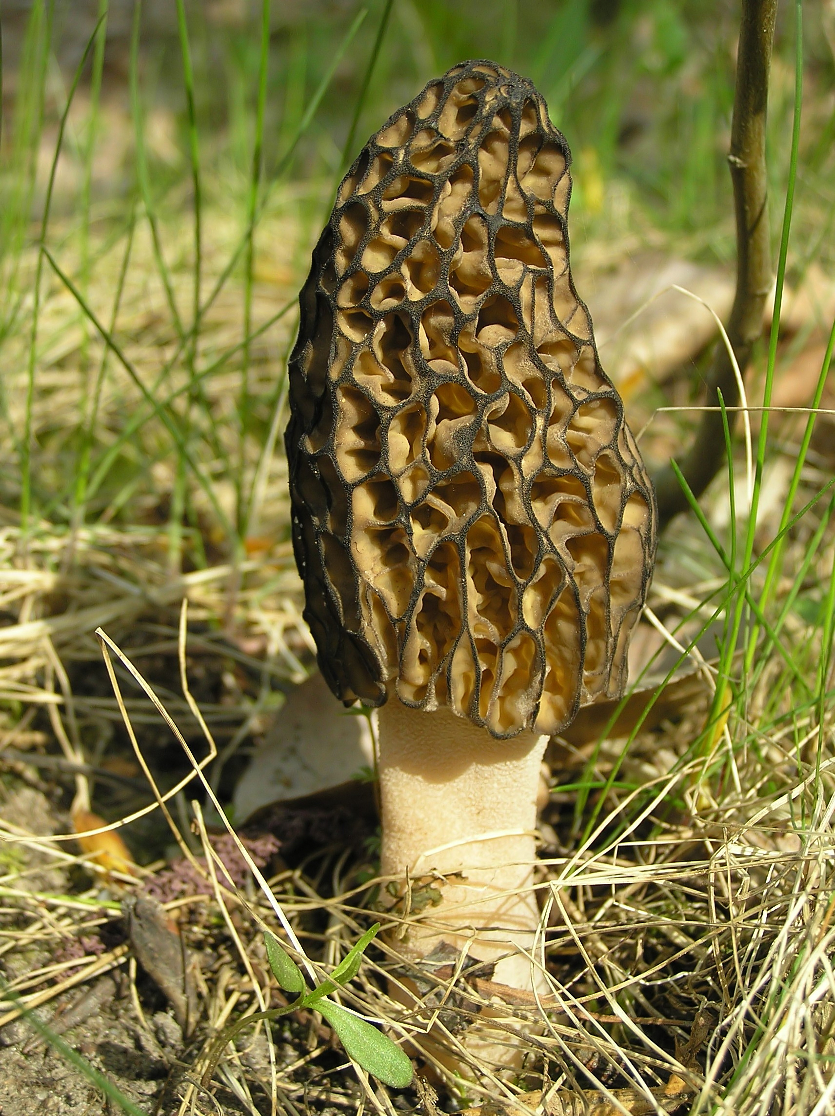 A morel. Białowieża Forest, Poland.